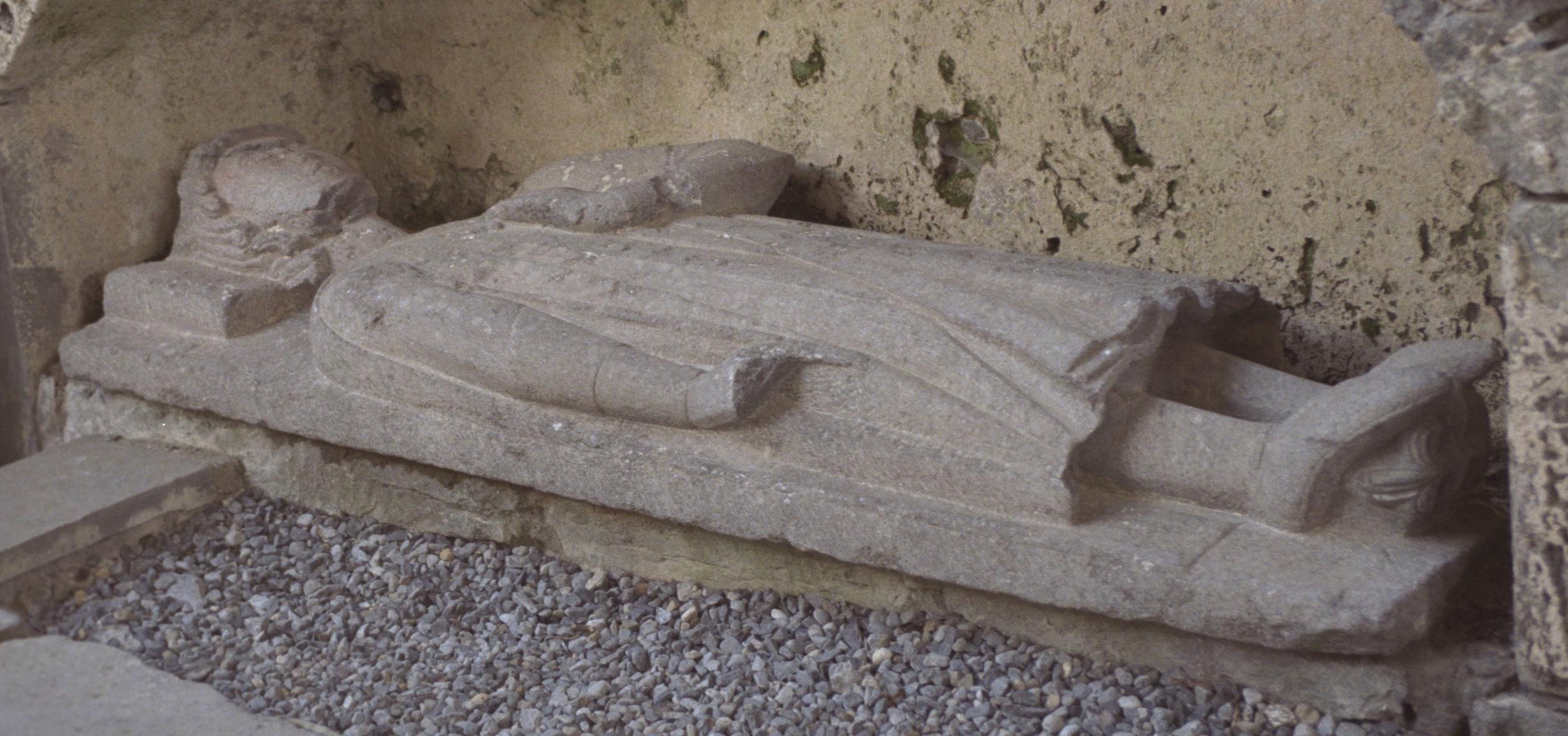 Effigy of King Conor O'Brien († 1268). His grandfather founded the monastery 74 years earlier.